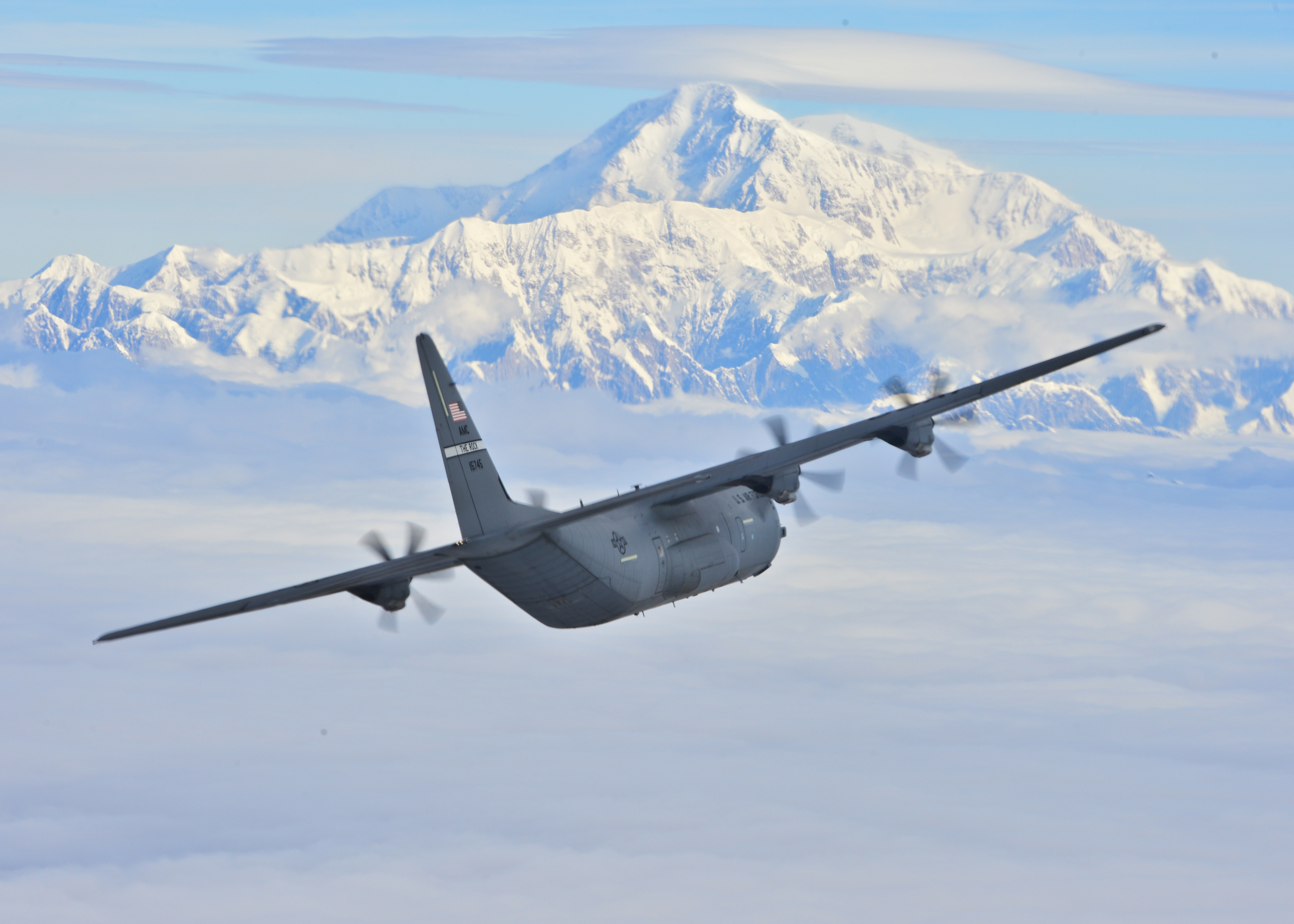 A C-130J Super Hercules from the 41st Airlift Squadron flies past Denali, the highest peak in North America, July 19, 2016. The 41st AS conducted training in Alaska to prepare for the terrain present in austere locations. Alaska provides an uncontended airspace, which allows aircrews to train more effectively without having to adjust to commercial flight patterns. (U.S. Air Force photo/Senior Airman Kaylee Clark)